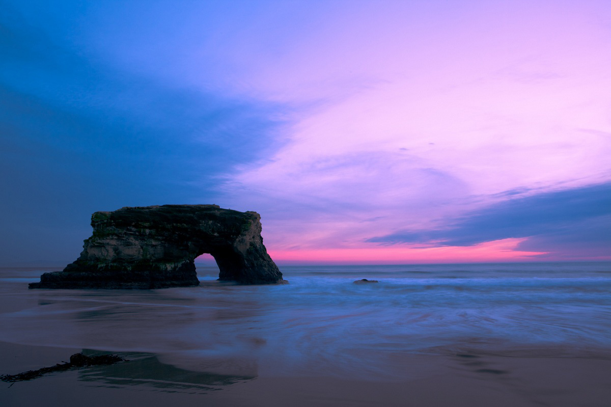 natural Bridges State Park in Santa Crux, California as seen at dusk.